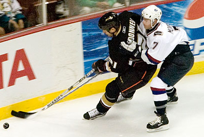 Sean O'Donnell of the Anaheim Ducks and Brendan Morrison of the Vancouver Canucks battle for the puck in 2006 pre-season play.